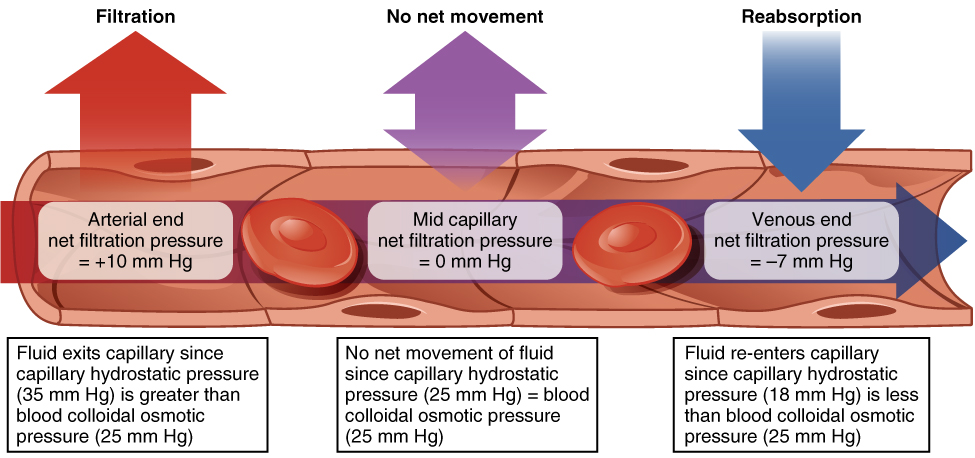 Illustration from Anatomy & Physiology, Connexions Web site. Jun 19, 2013.